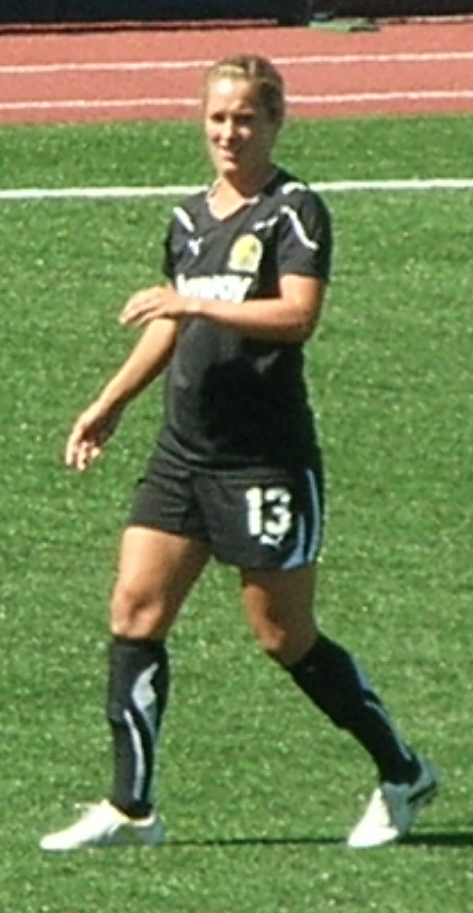 FC Gold Pride player Kristen Graczyk at the 2010 WPS Championship at Pioneer Stadium in Hayward against the Philadelphia Independence. The Gold Pride won 4-0.